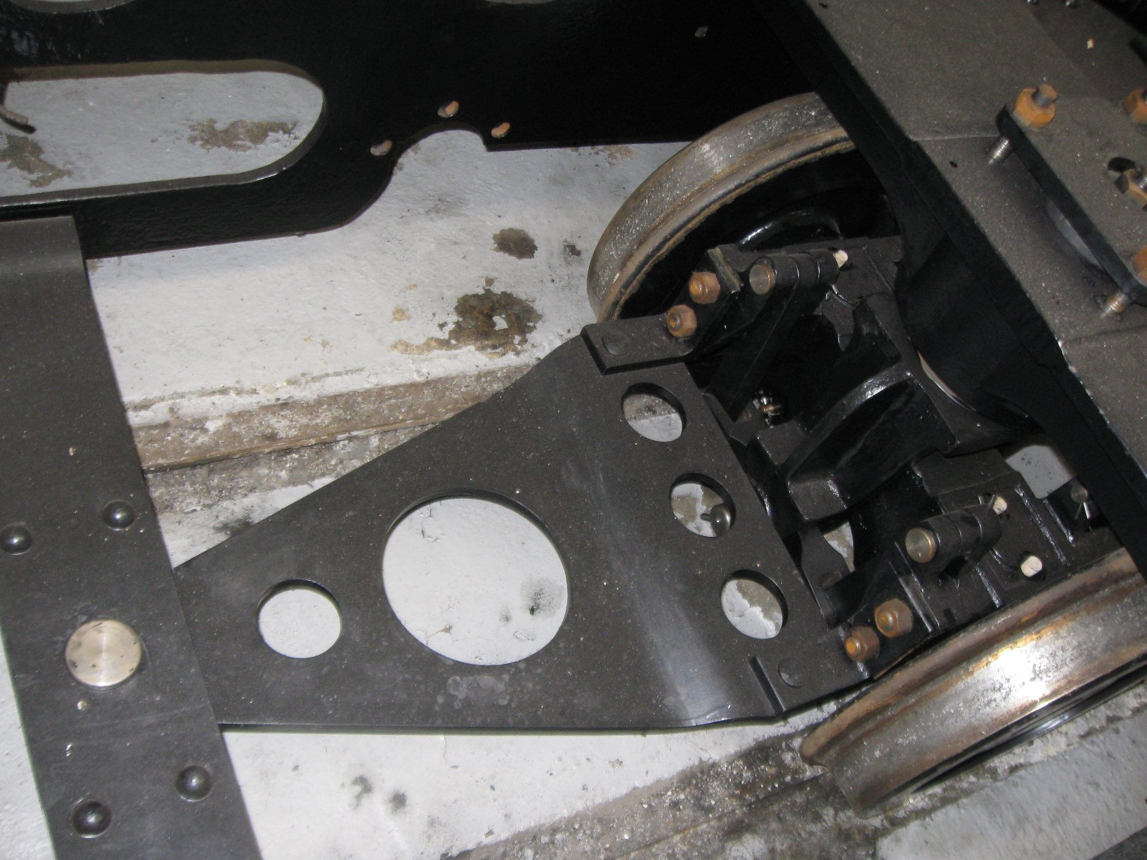 trailing Bissel truck of Russell